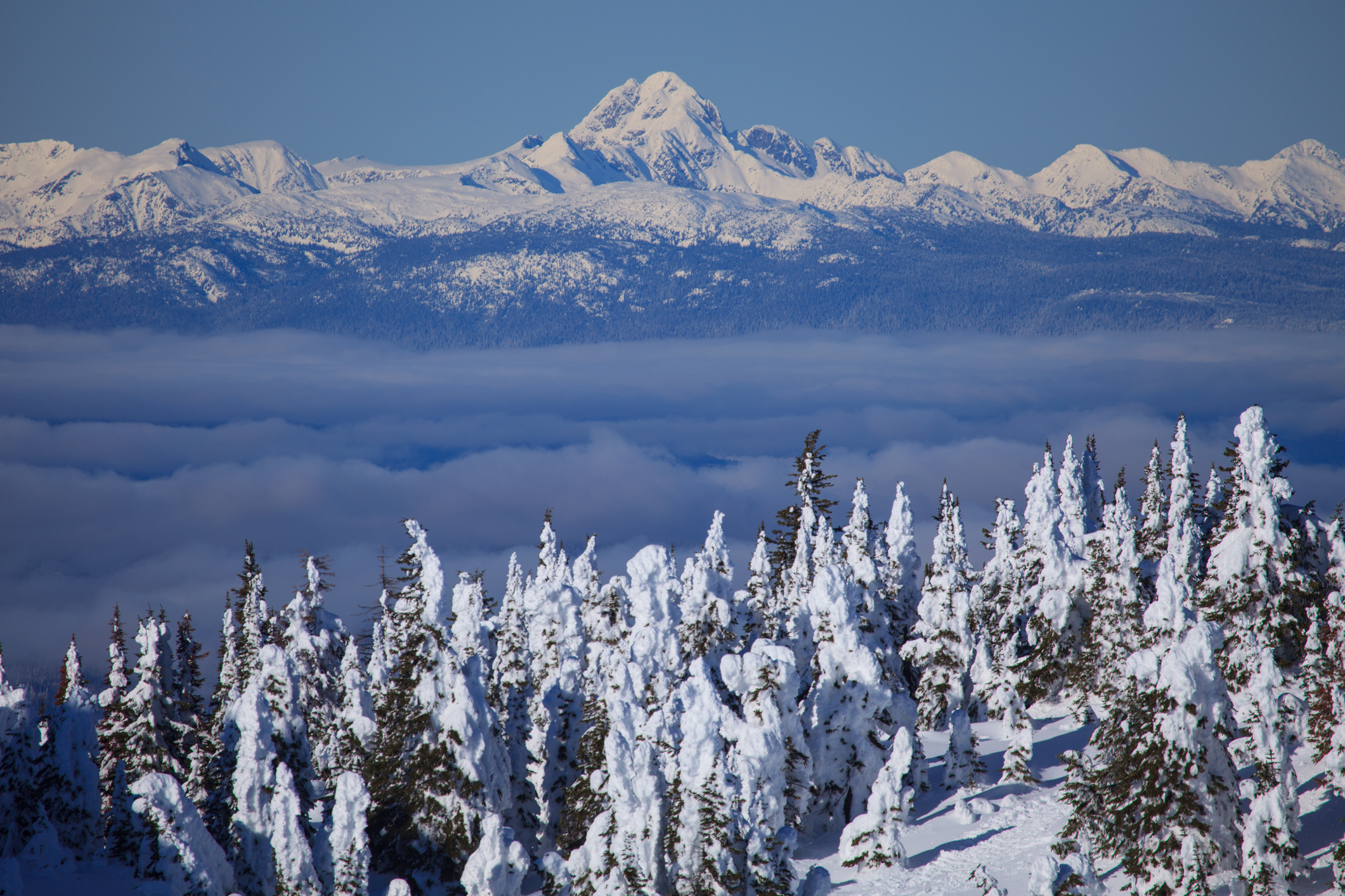 Dunn Peak from Sun Peaks